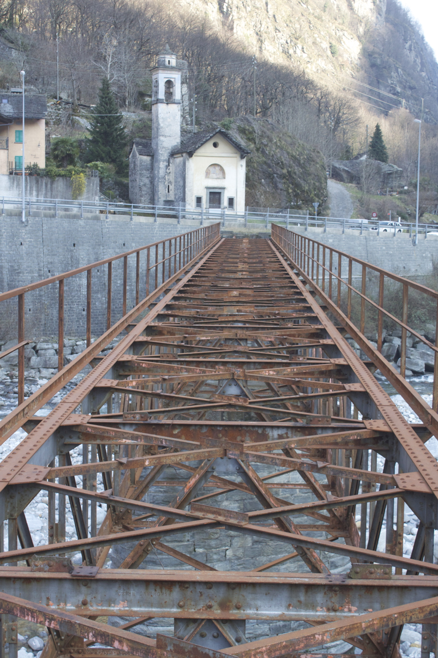 Railway bridge of Visletto, built in 1907.